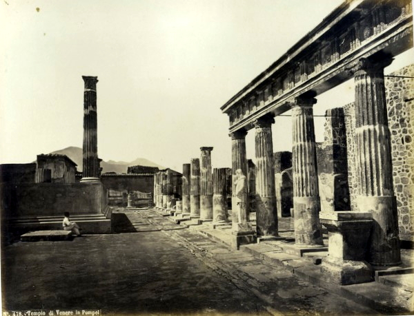 Roberto Rive (18?-1889), "Temple of Venus in Pompeii". Really it is the Temple of Apollon. Catalogue # 478.